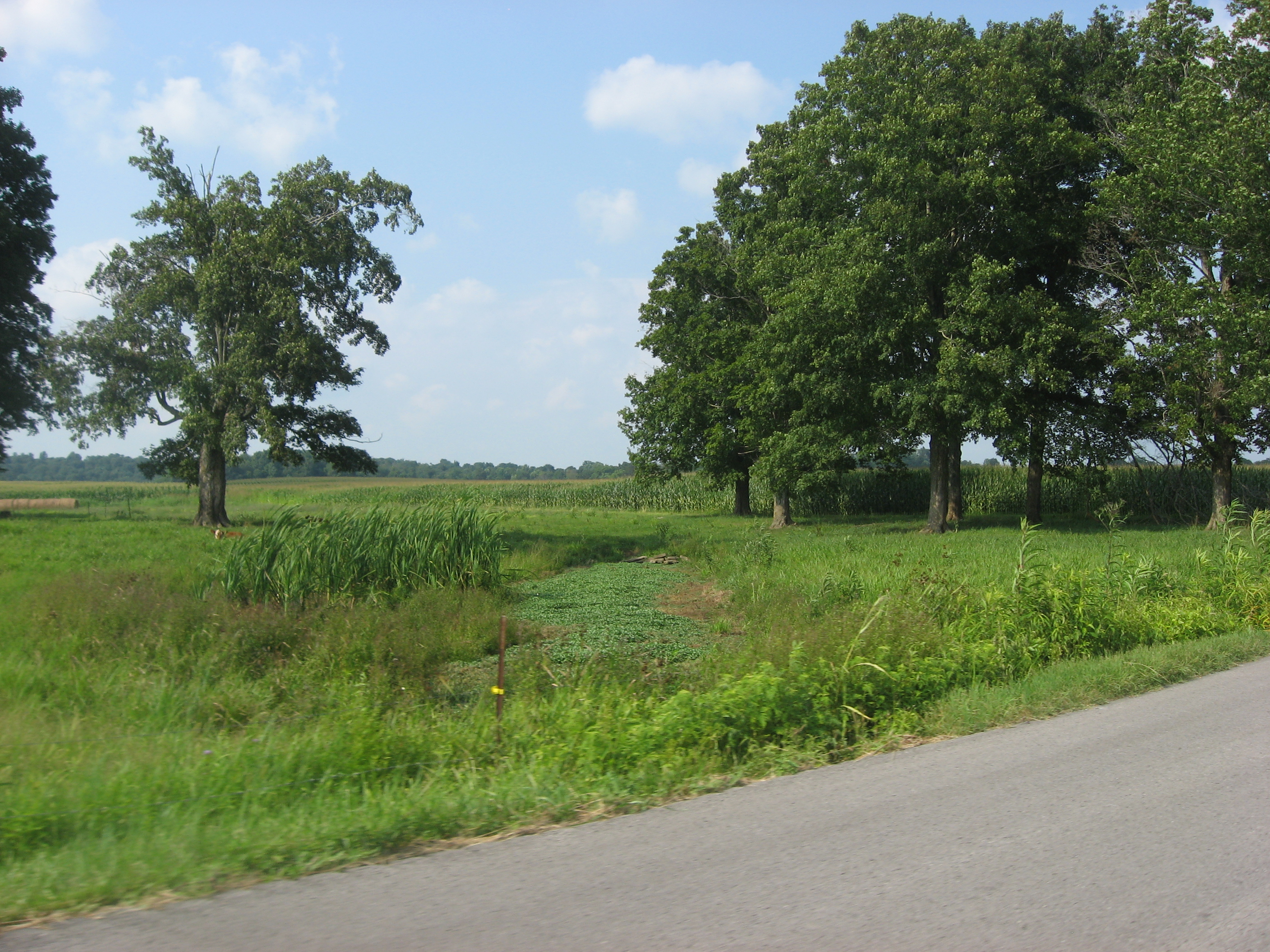 Site of the Keltner House, located along Kentucky Route 1913 near Haskingsville in Green County, Kentucky, United States. Built in 1826, it was listed on the National Register of Historic Places in 1984; it is still on the Register, even though it has been destroyed.